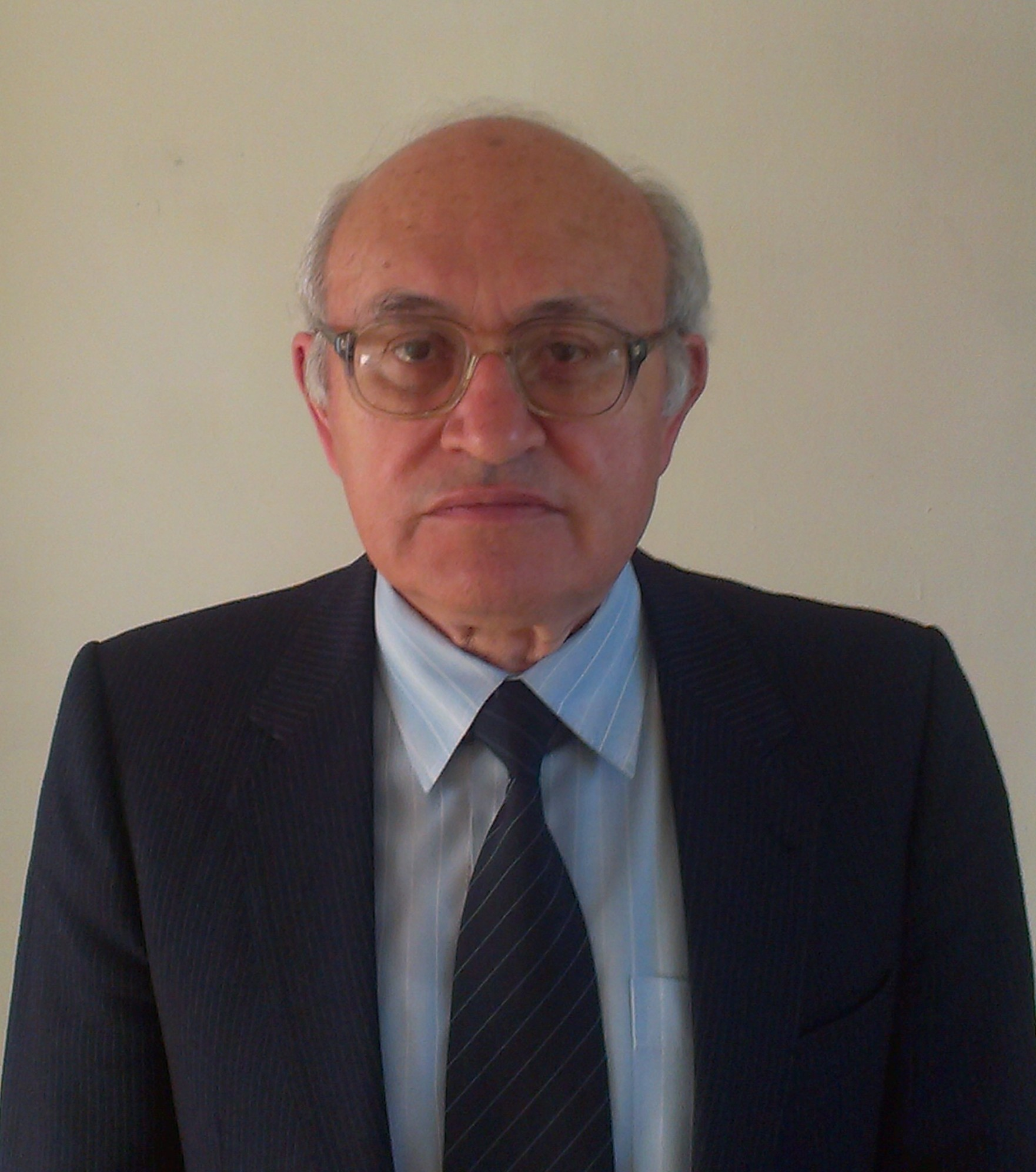 Акад. доц.Красимир Петров